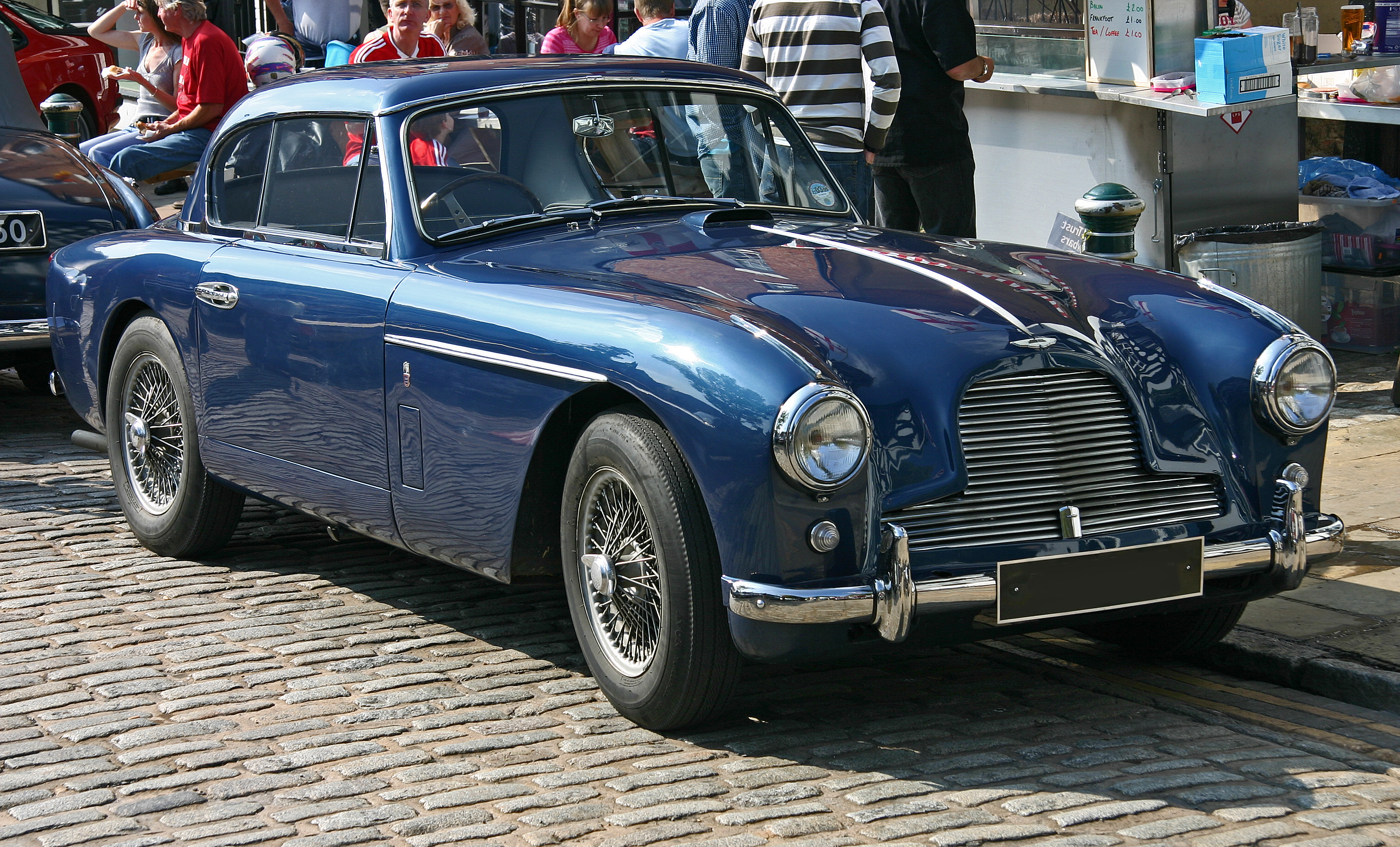 Aston Martin DB2/4 MkII FHC. In 1955 when the MkII version of the DB2/4 was launched the option of a Fixed Head Coupe was given, and only 34 examples were built from 1955 to 1957